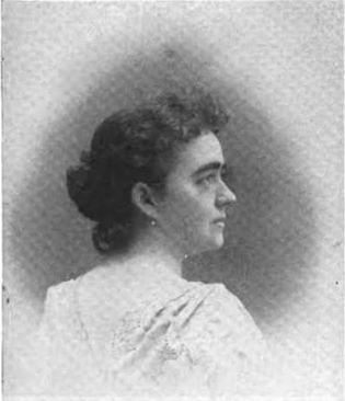 Flora New Harrod Hawes